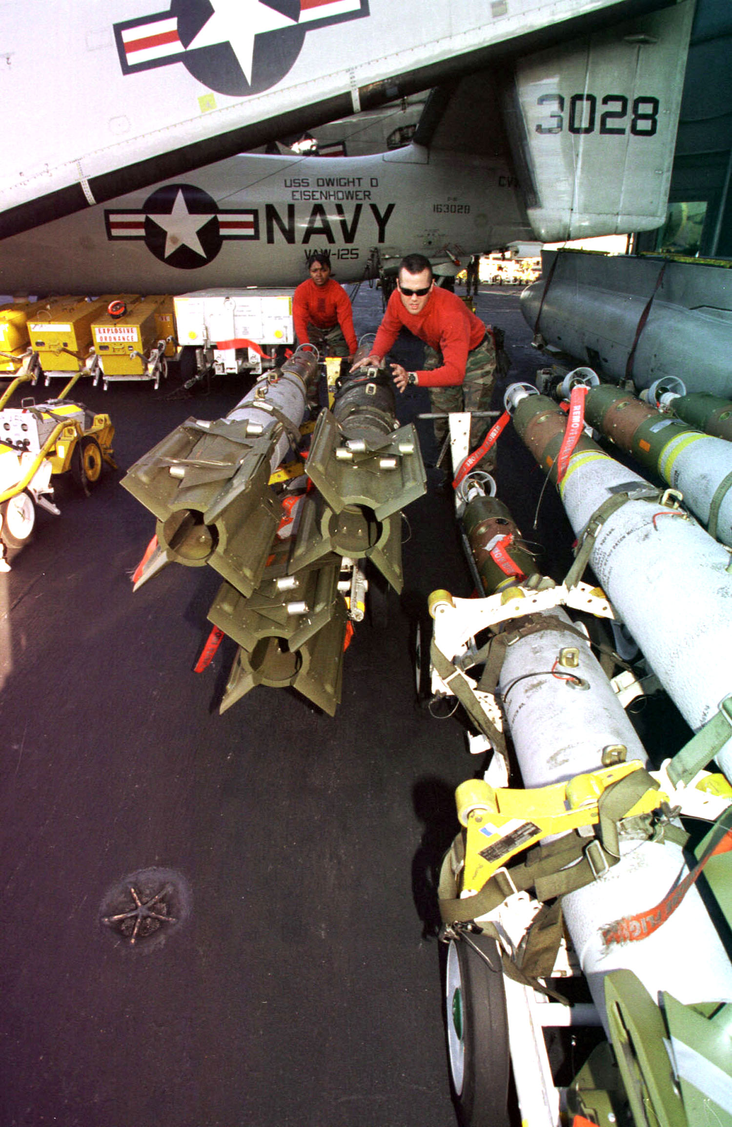 Some GBU-16 Paveway II being loaded onto an aircraft - see also Paveway